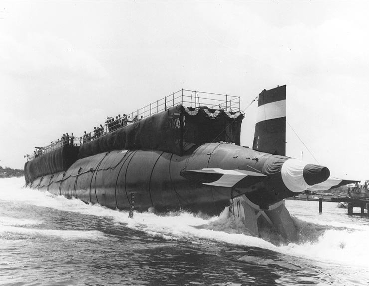 USS Thresher (SSN-593), entering the water for the first time, during launching ceremonies at the Portsmouth Naval Shipyard, Kittery, Maine, 9 July 1960.